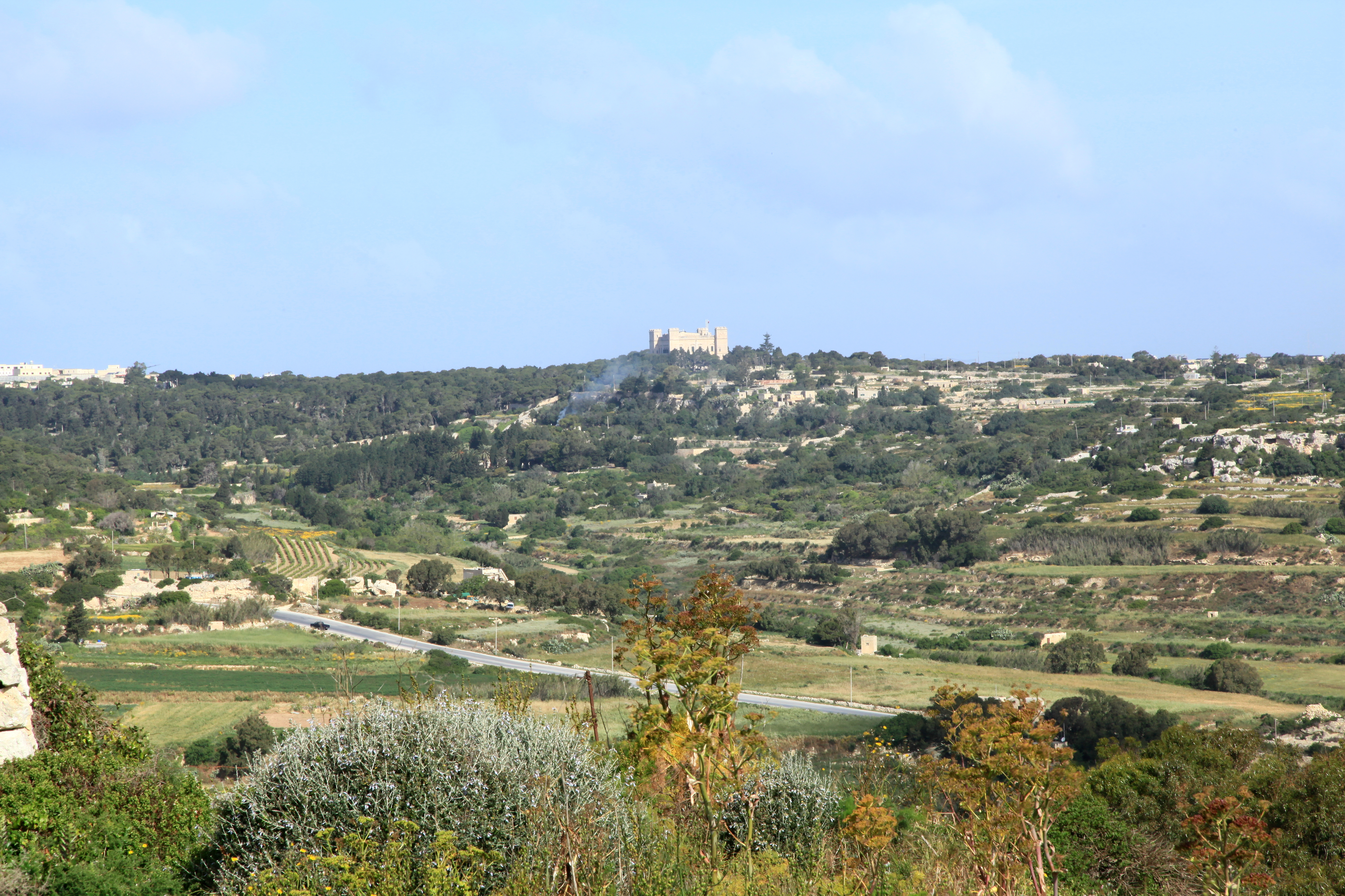 View from the Laferla Cross at Moghdija tal-Gholja to Buskett Gardens and Verdala Palace in Siġġiewi, Malta